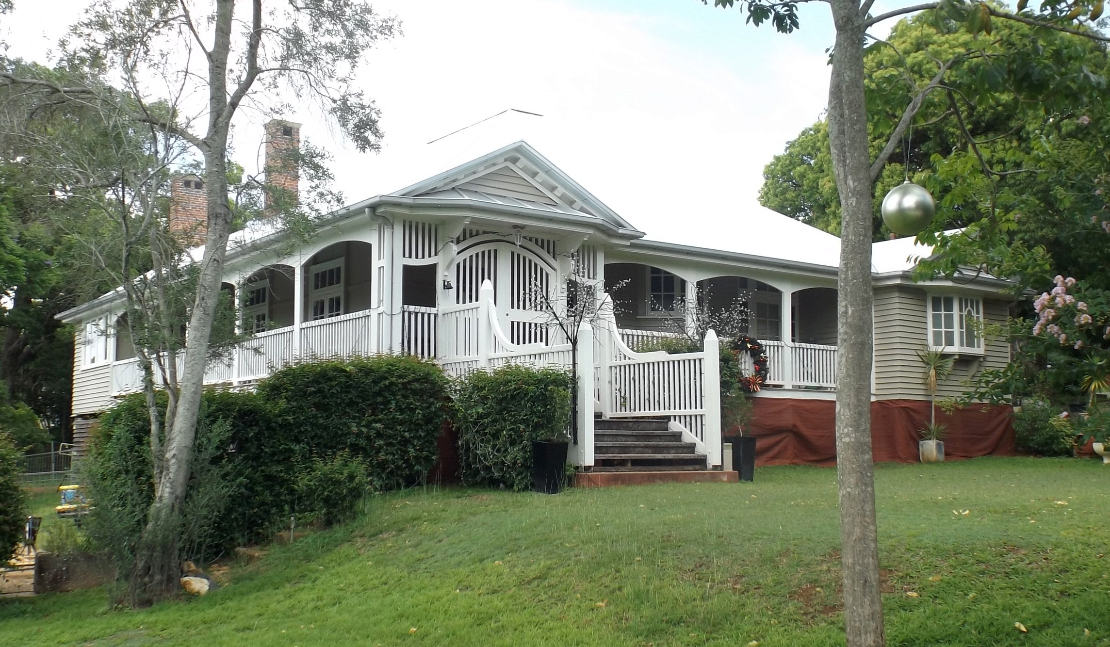 Photo of Weemalla at Corinda, Brisbane, Queensland, Australia.